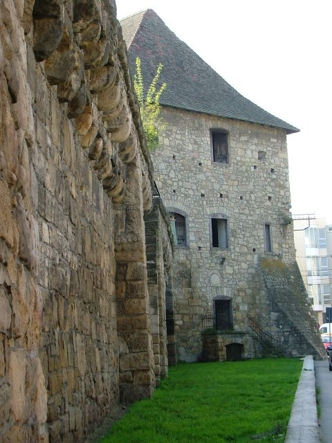 Tailors Tower, Cluj-Napoca